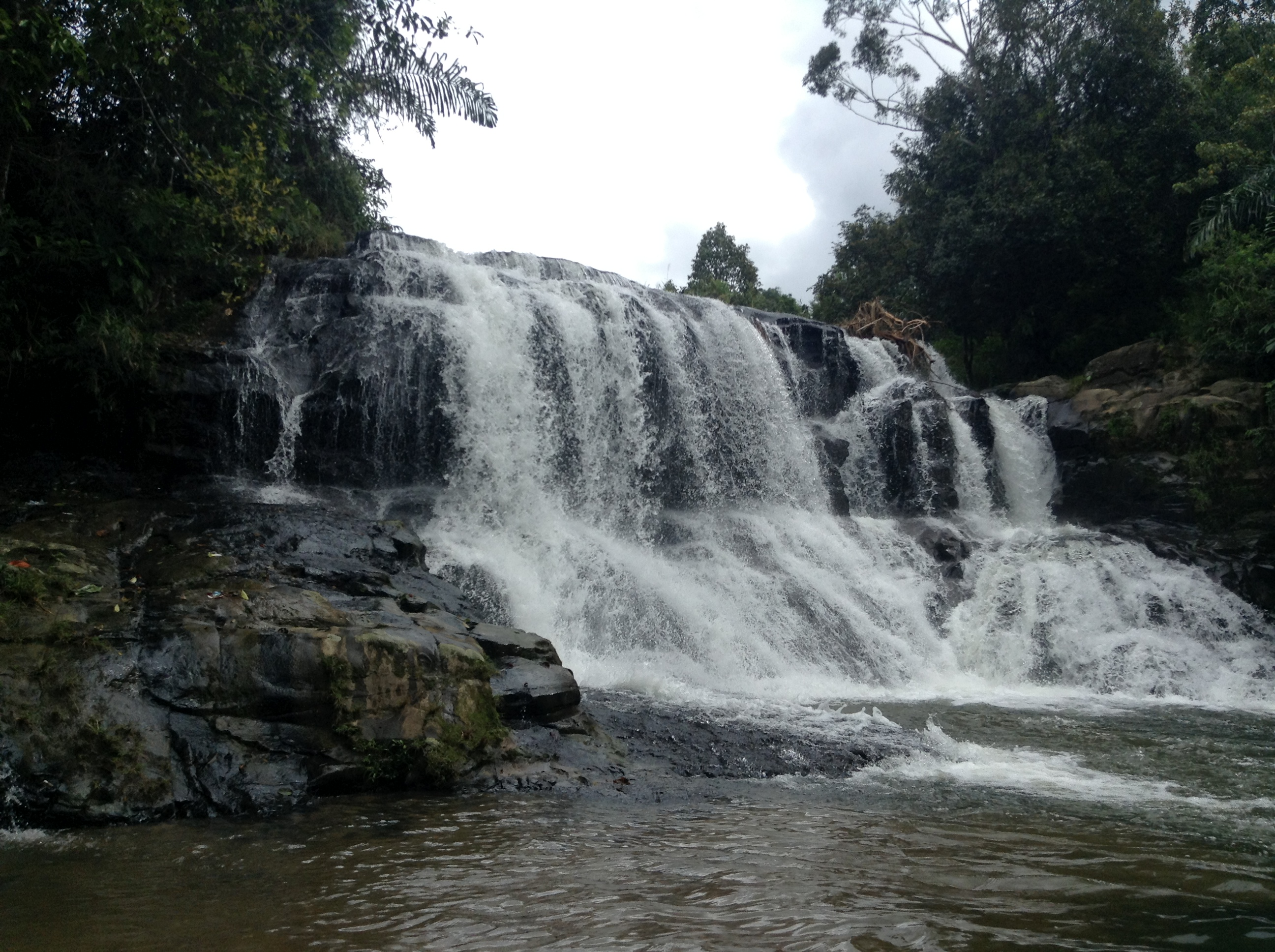 Sampuran Waterfall in Damparan Village of South Tapanuli Regency in IndonesiaBahasa Indonesia: Air Terjun Sampuran di dusun Damparan, desa Damparan Haunatas, Kecamatan Saipar Dolok Hole, Kabupaten Tapanuli Selatan, Sumatera Utara, Indonesia